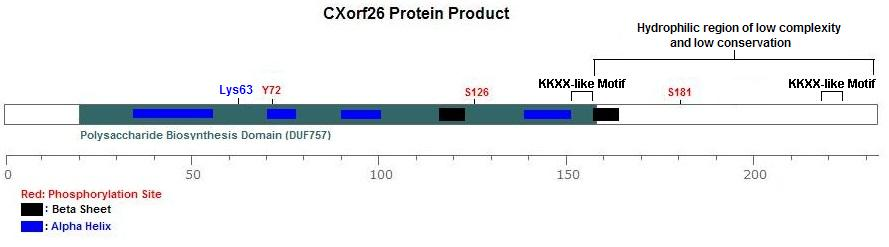 Summary of features on the CXorf26 protein product, UPF0368